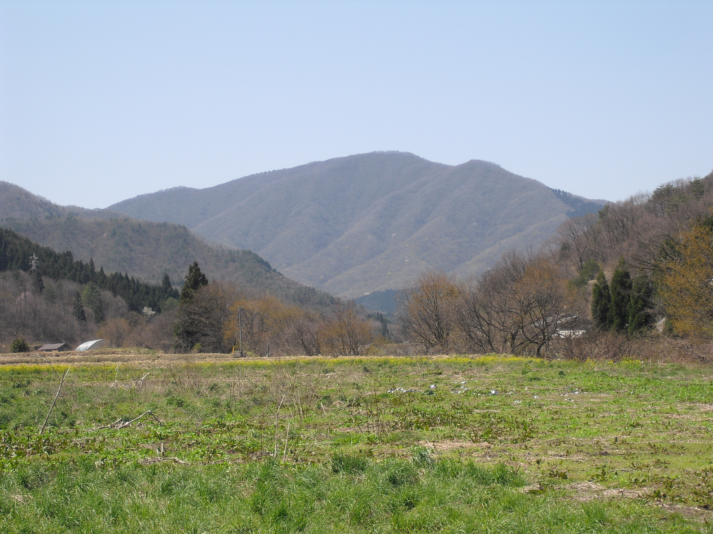 Mount Oyorogi as seen from the southeast in the border between Hiroshima and Shimane Prefectures, Japan.